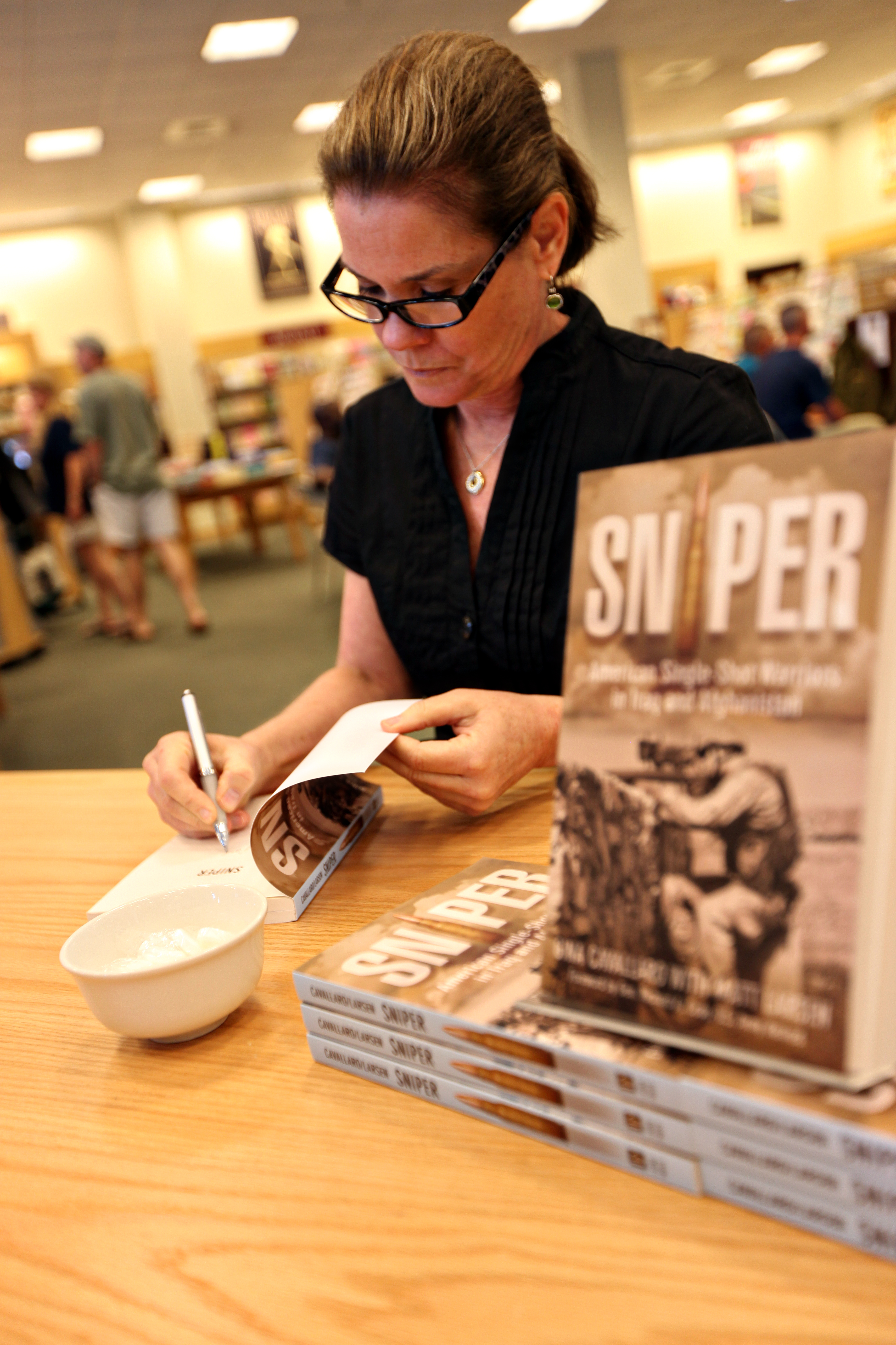 JACKSONVILLE, N.C.—Gina Cavallaro, author of Sniper: American Single-Shot Warriors in Iraq and Afghanistan and staff writer with the Marine Corps Times, signs a copy of her book to help with the Museum of the Marine during its book fair and living history display at Barnes and Noble, May 21. The museum is attempting to raise enough funds for it to begin construction this spring. (Photo by Sgt. Thomas J. Griffith)